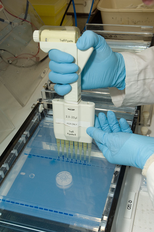 A U.S. Department of Agriculture (USDA) Animal and Plant Health Inspection Service (APIS) employee prepares an agarose gel for electrophoresis of DNA at the Center for Plant Health Science and Technology Otis Lab in Cape Cod, MA on June 13, 2012. The Otis Lab’s mission is to identify, develop, and transfer technology for the survey, exclusion, and control of plant pests and diseases. USDA photo.